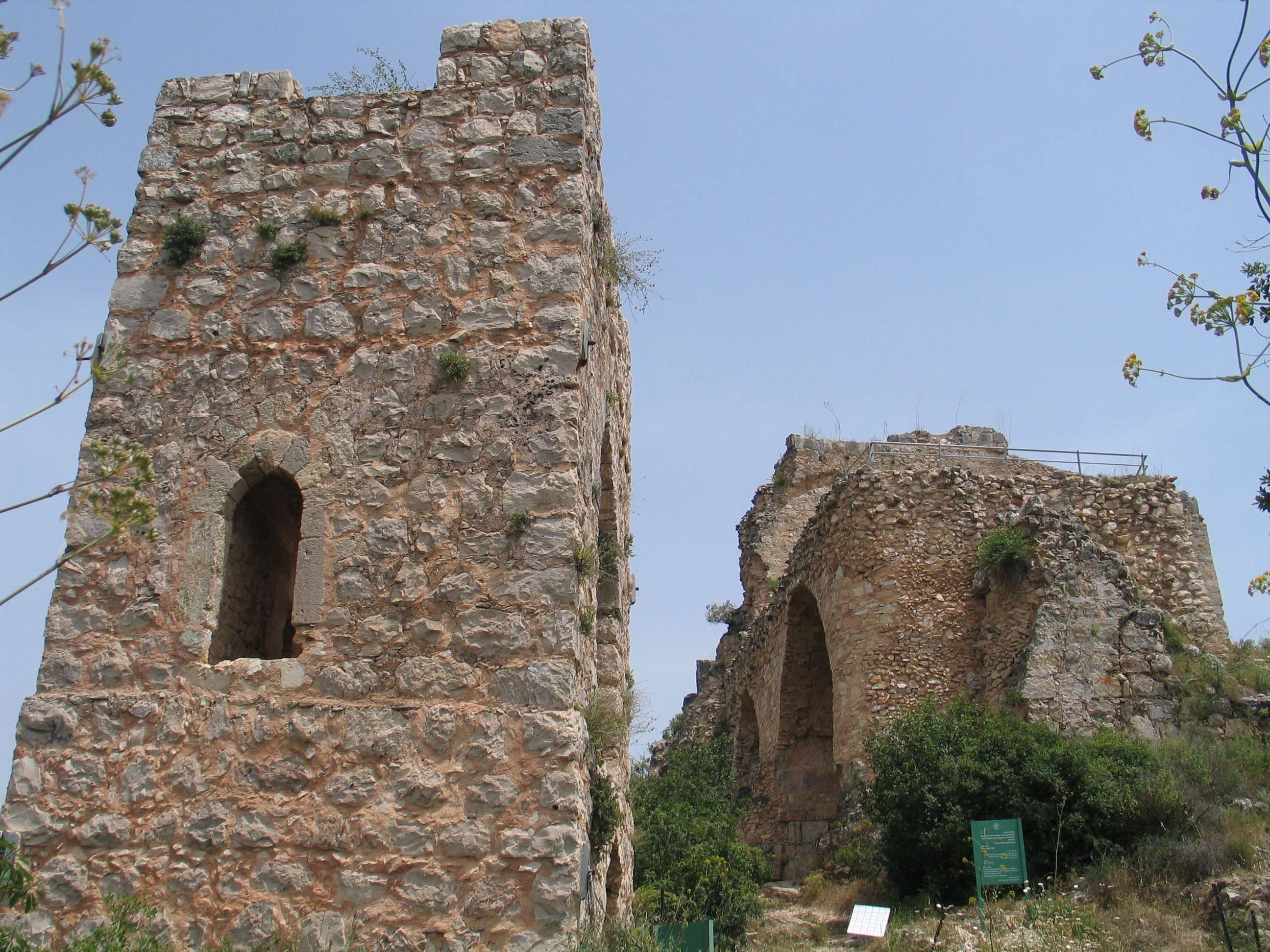 Montfort castle, Israel.